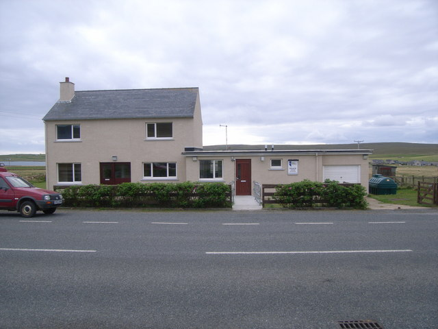 Baltasound Police Station